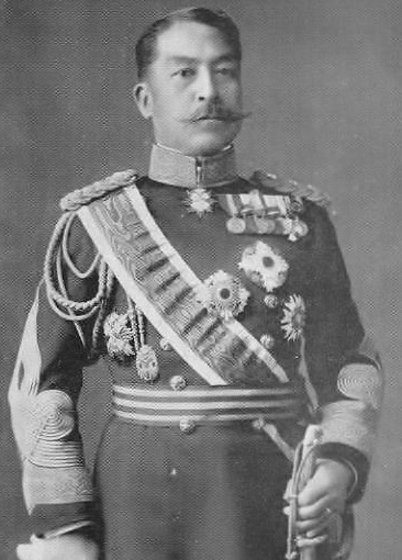 Cropped Portrait of Prince Kanin Kotohito